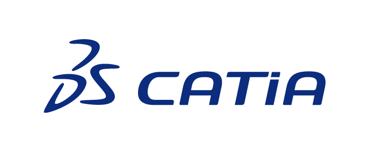 Logo of CATIA brand